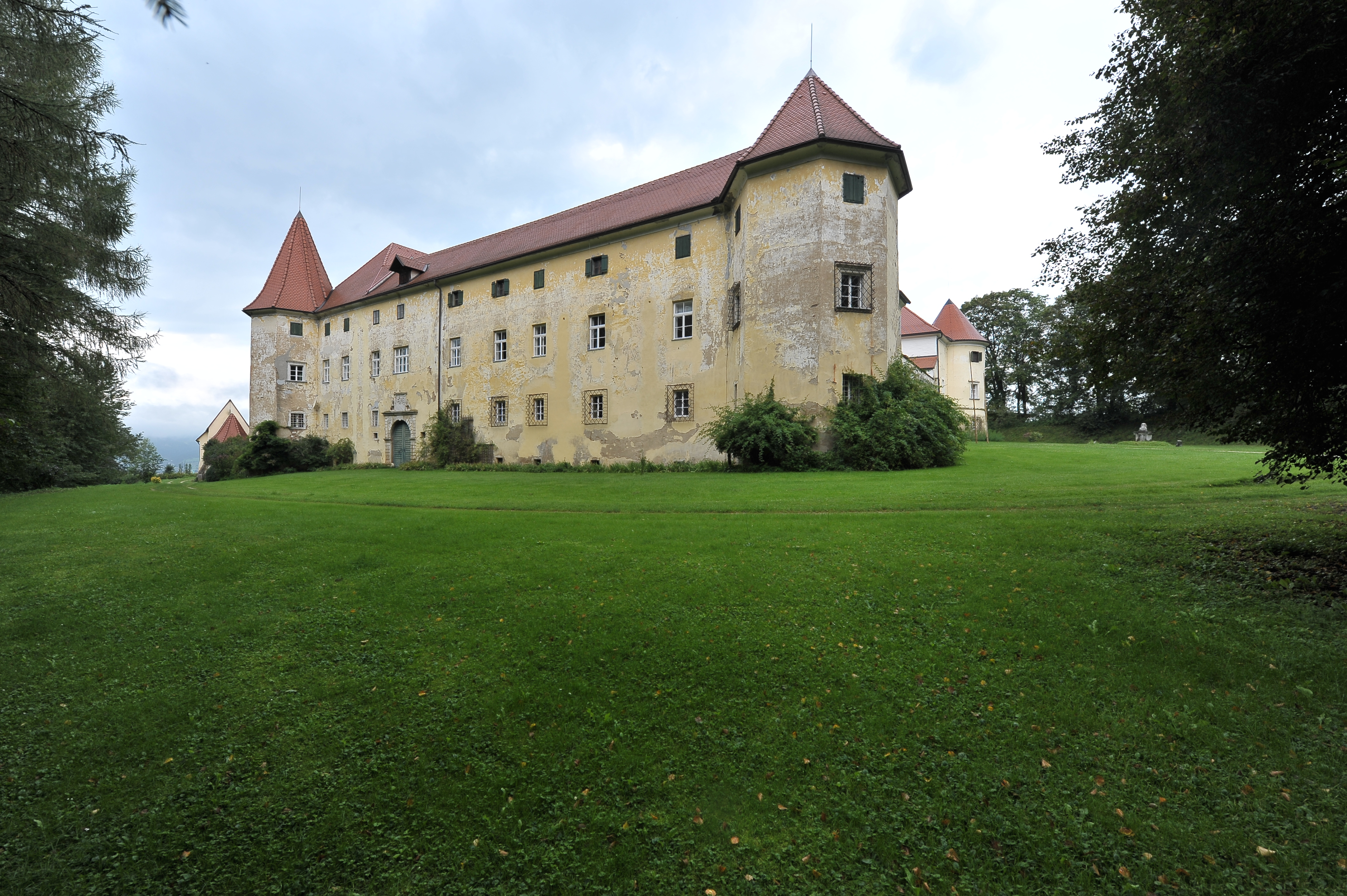 Castle Reideben at Reideben #1, municipality Wolfsberg, district Wolfsberg, Carinthia / Austria / EU